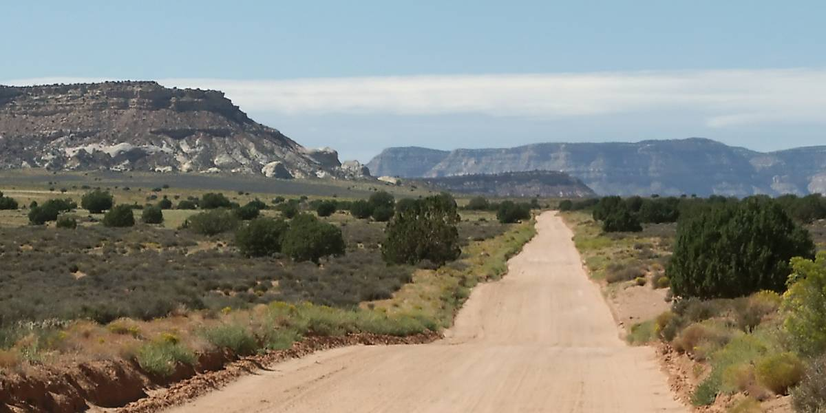 A typical view along the Hole in the Rock Road, looking northwest from near Harris Wash. At the upper left are the Straight Cliffs of the Kaiparowits Plateau, and at the upper right are the highlands of the Aquarius Plateau.